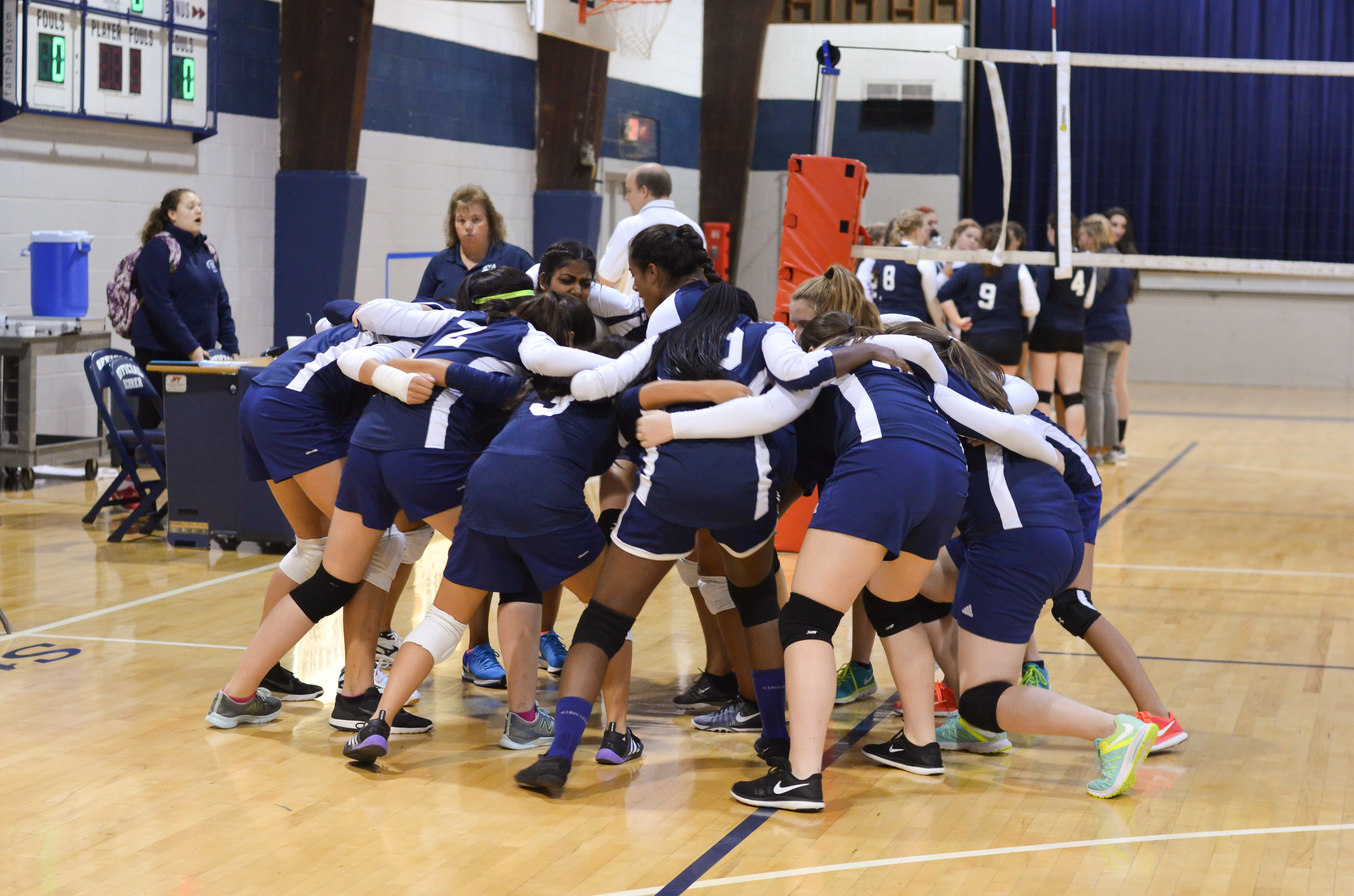 Game during the 2016 Fall Season